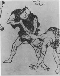 Hokusai. Wrestlers (From "The Manga")